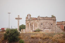 Holy Cross Church Taranto